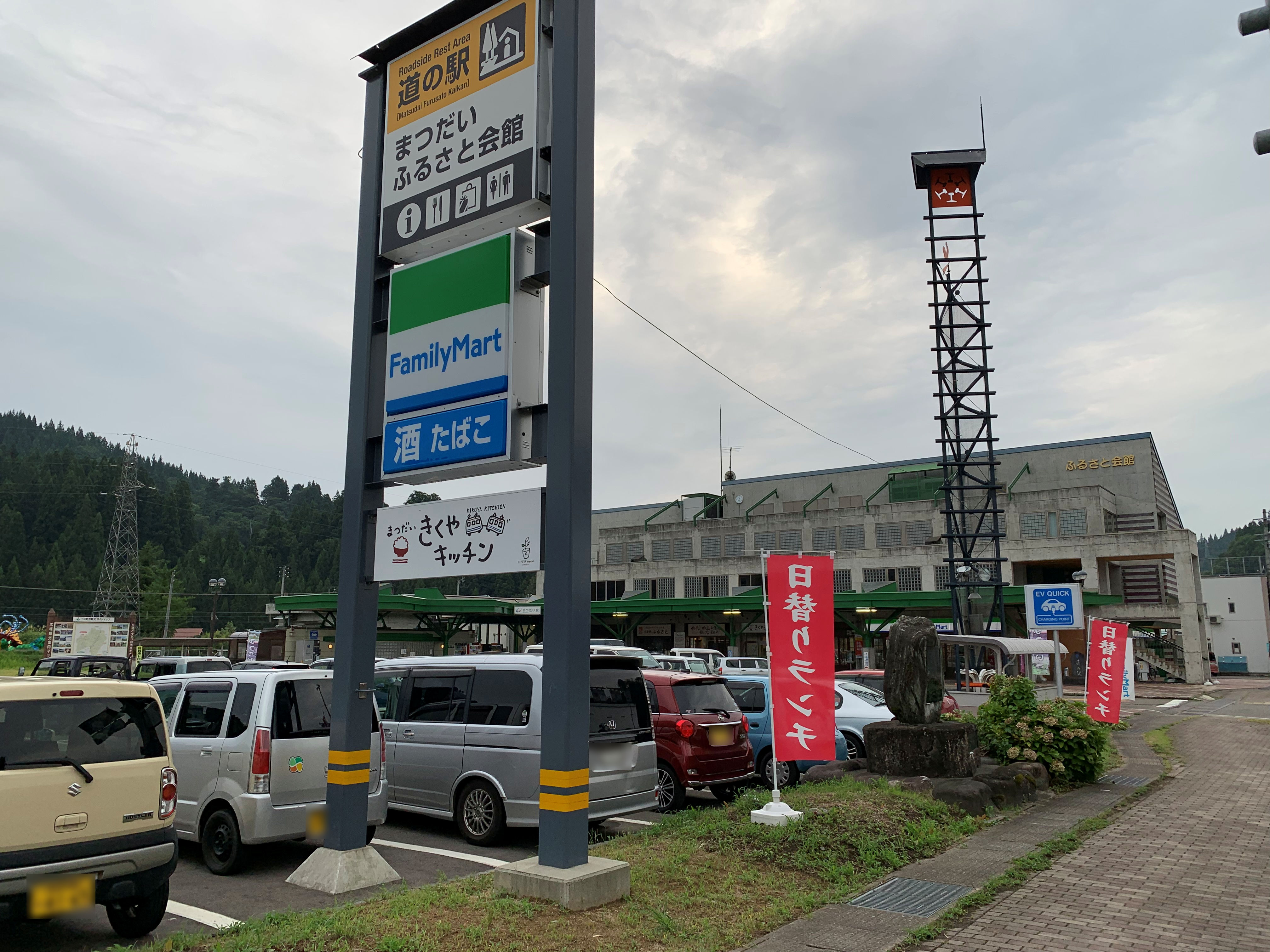 Matsudai Furusato-Kaikan, Roadside Station, Niigata, Japan. Took photo in August 2019. Blurred car numbers.